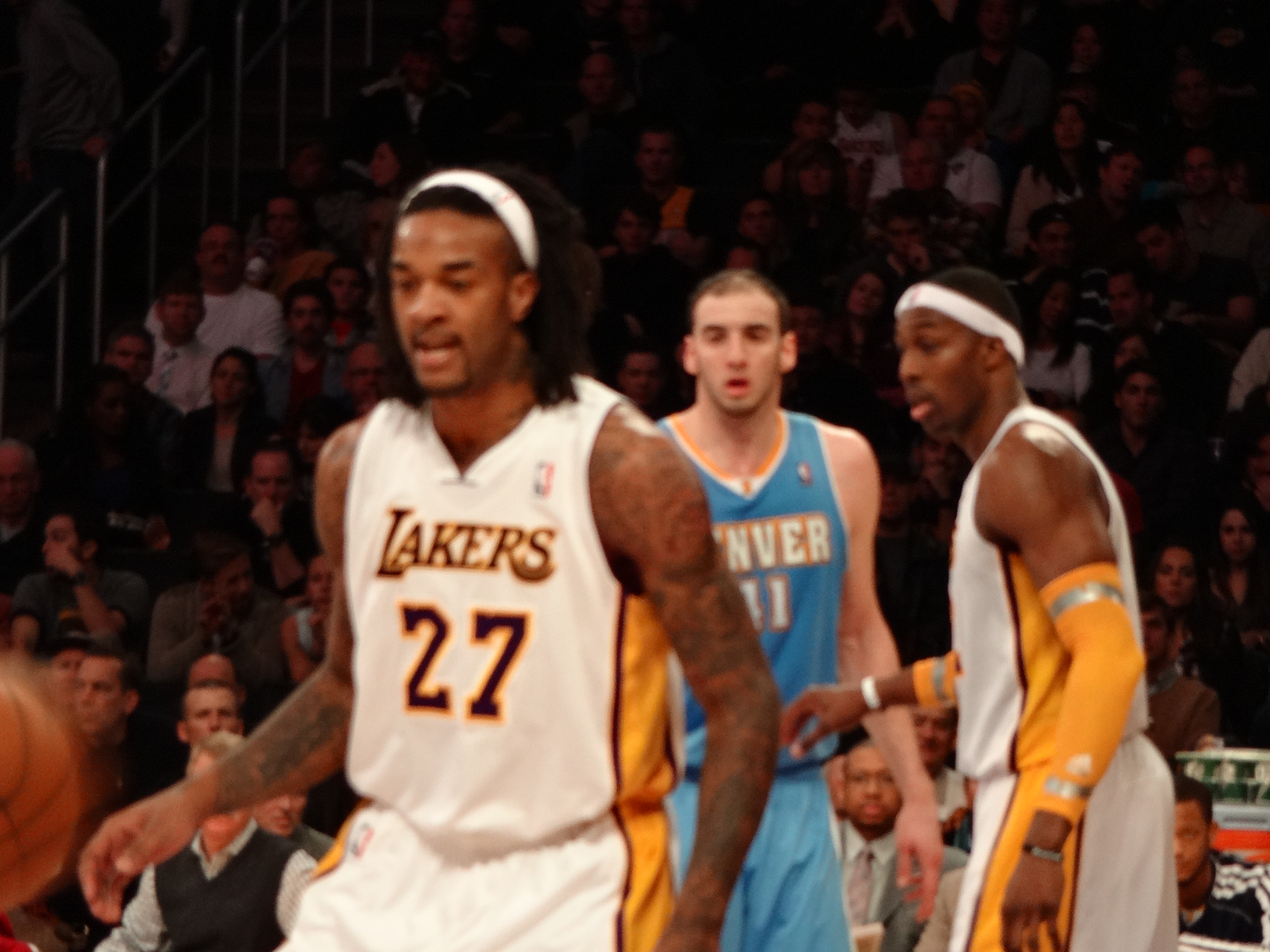 Los Angeles Lakers vs Denver Nuggets at the Staples Center. Jordan Hill, with Kosta Koufos and Dwight Howard in the background.